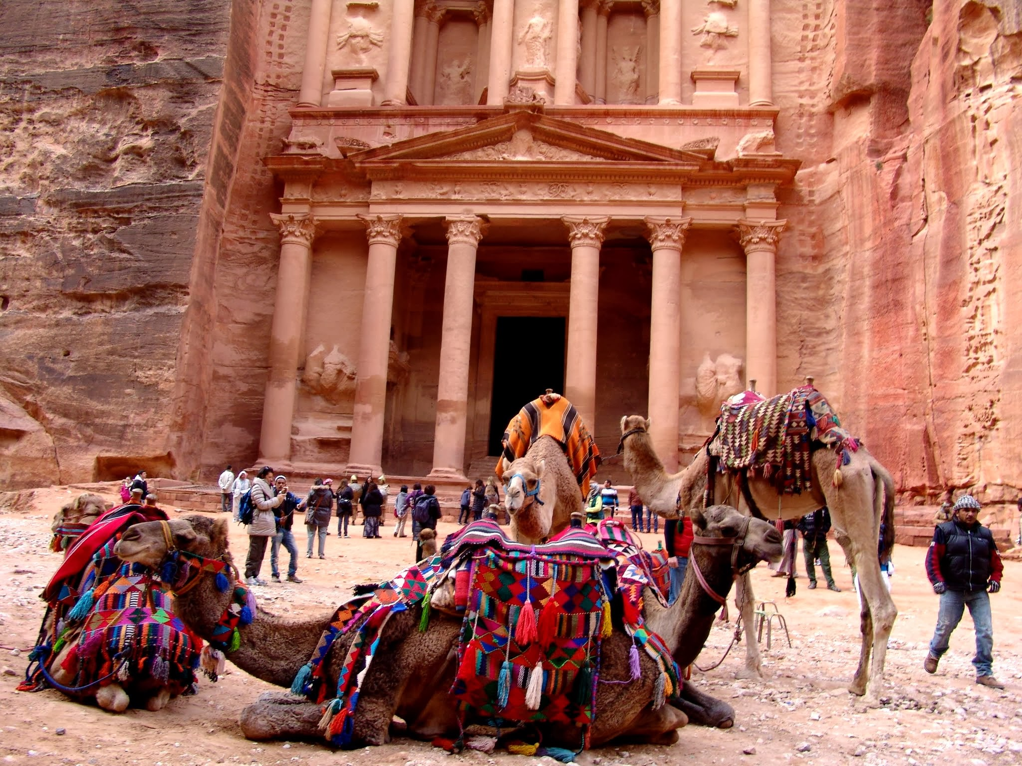 Tourist attraction